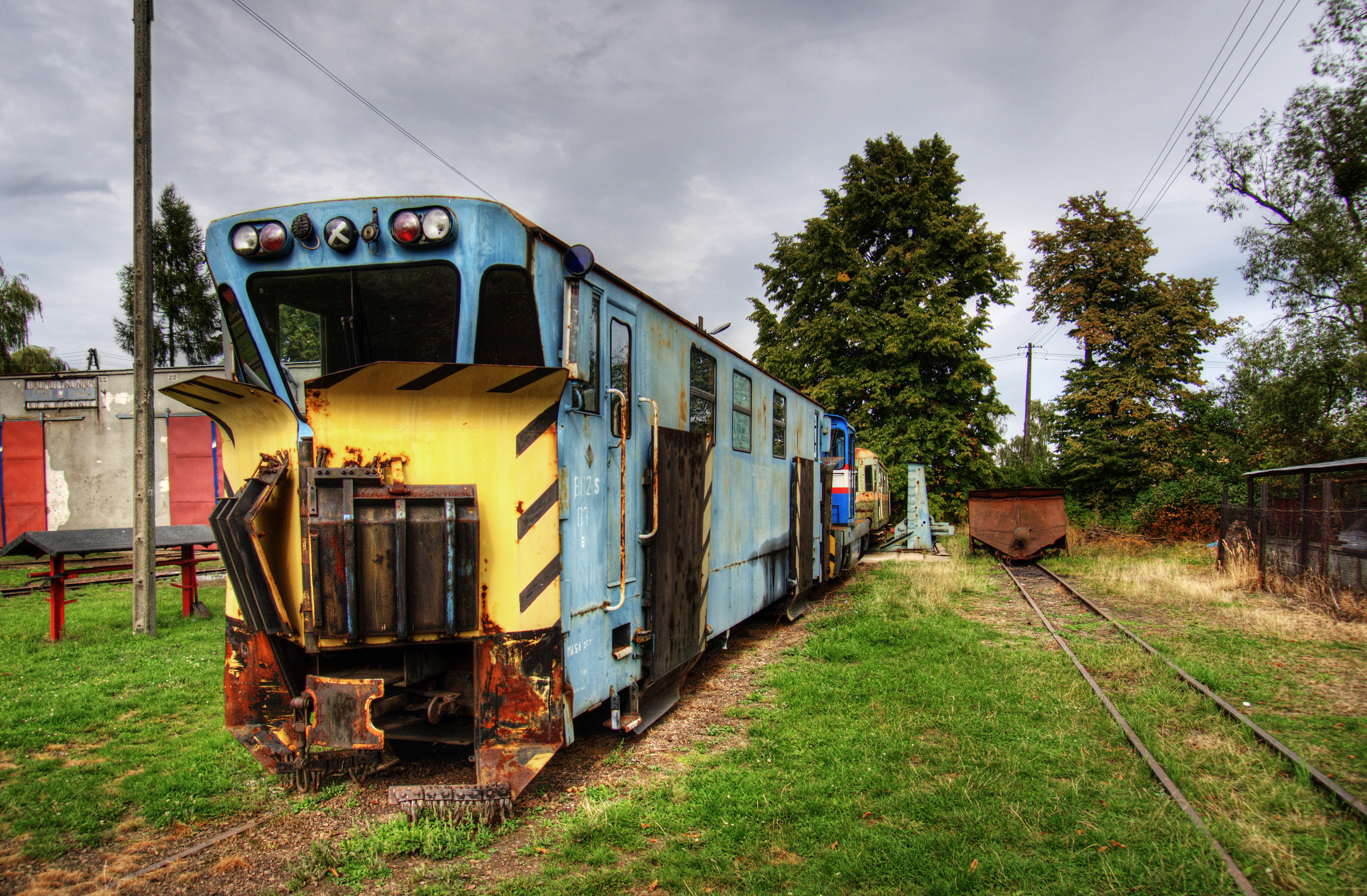 Rogów railway museum